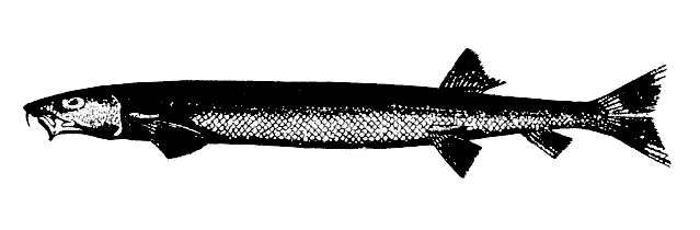 Gonorynchus greyi, a species of beaked salmon